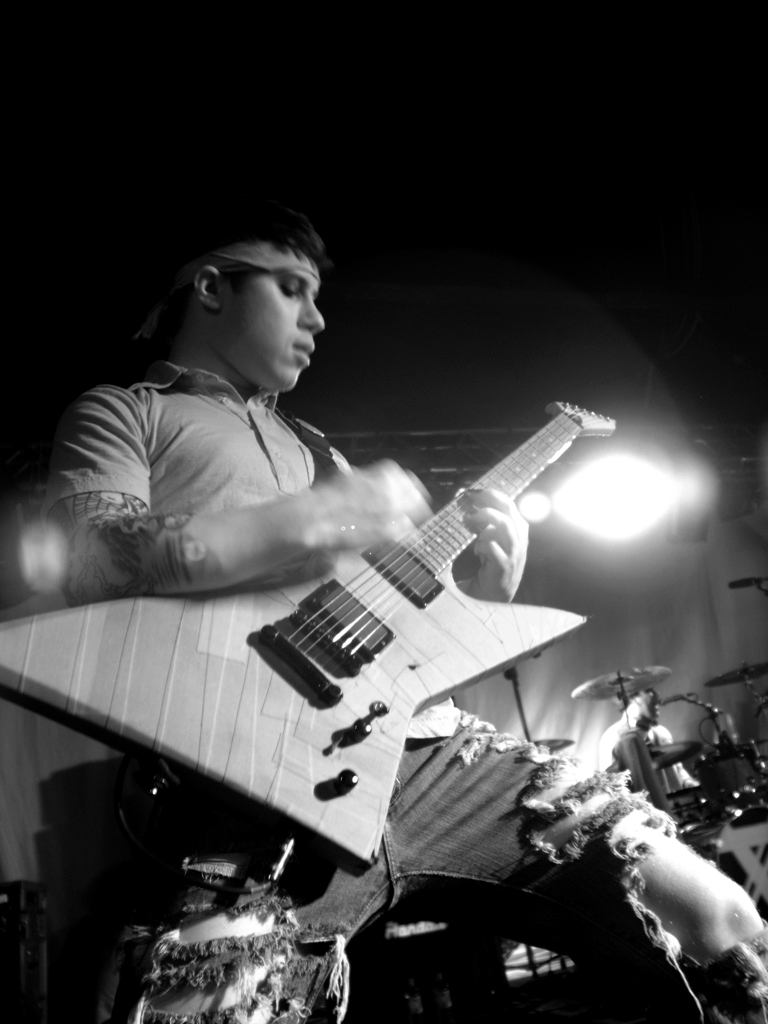 Dan Jacobs, lead guitarist of Atreyu, performing live.